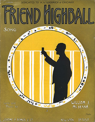 Sheet music cover for "Friend Highball" lyrics and music by William J. McKenna, 1915. Store Web page states: "The sheet music in this auction, which was published in 1915 by the New York firm of Jerome H. Remick & Co., is titled "Friend Highball". The words and music were written by William J. McKenna. William J. McKenna (1881-1950) was a New Jersey born composer, author and director. Besides appearing in minstrel shows and vaudeville, he also wrote and directed radio programs and had music related articles in newspapers and magazines. As far as his composing skills were concerned, he created music for productions as varied as operettas and musical comedy as well as popular songs like 'Has Anybody Here Seen Kelly?', 'My Broken Rosary' and 'Curly Head' [...] [Lyrics include the lines:] "I bless the day I met you, How can I ever forget you? You've been a pal, a true one, I'll never want for a new one.' [...] The cover art is signed Starmer. The Starmer Brothers (William A. Starmer and Fredrick S. Starmer) were among the most prolific sheet music cover artists of the period. [...] measures about 10-5/8 by 13-1/2 inches."